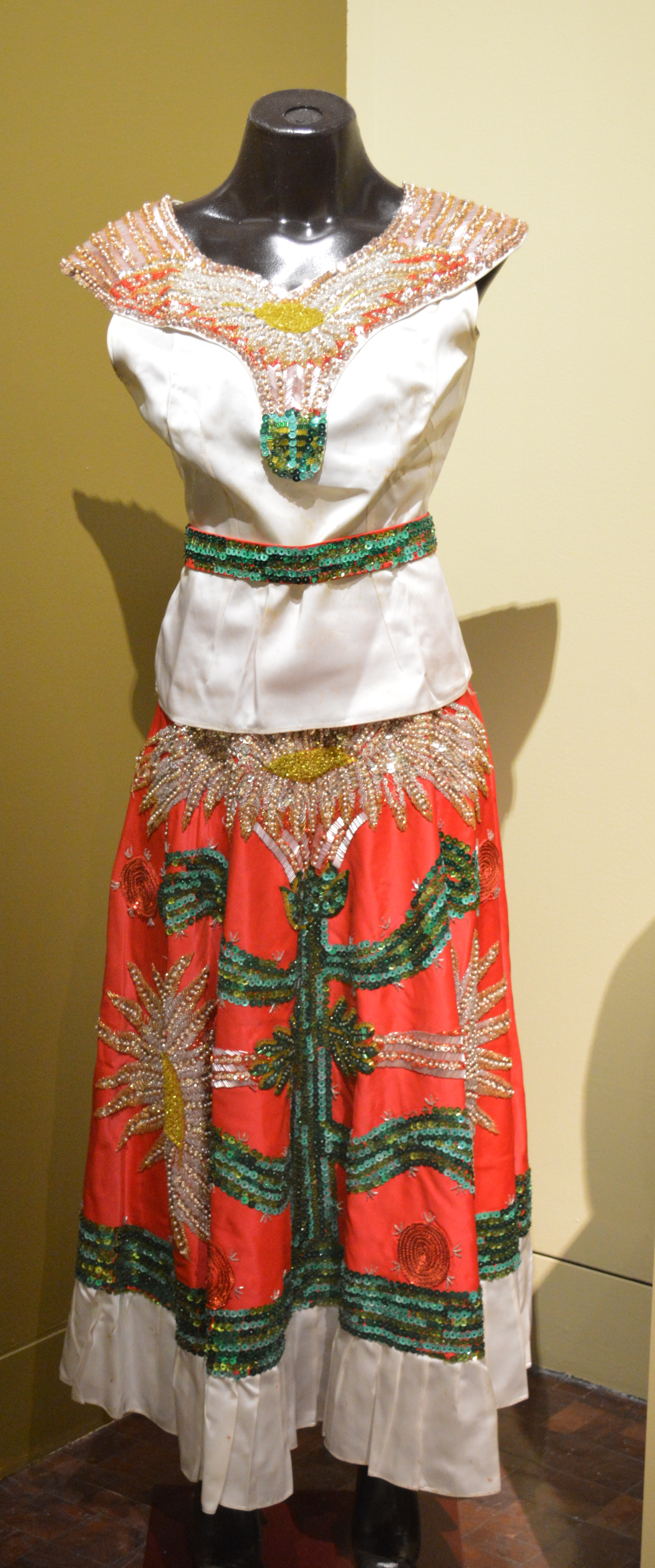 Dress for a folk dance called Flor de pitahaya from Baja California at the El Norte, su materia, su artesania at the Museo de Arte Popular in Mexico City